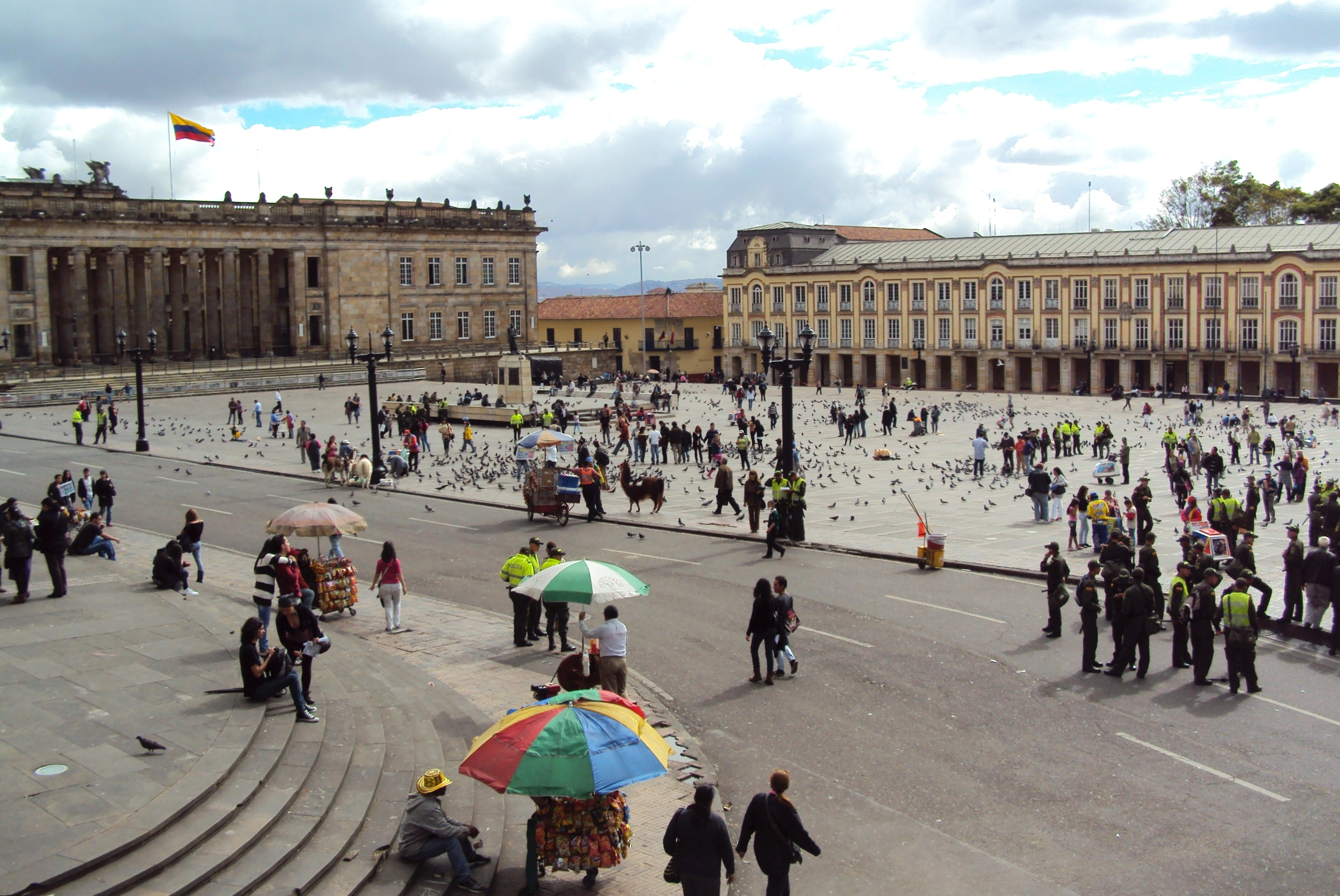 View of the Plaza de Bolívar from the balcony of the Museo de la Independencia